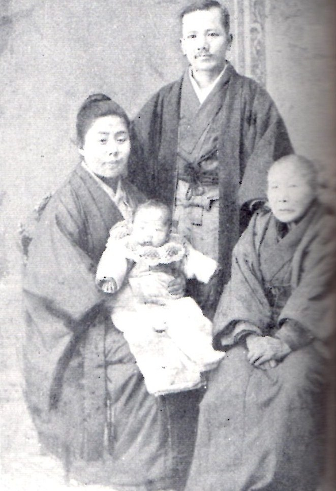 A portrait of Juji Nakada family right after a baby ugo's birth